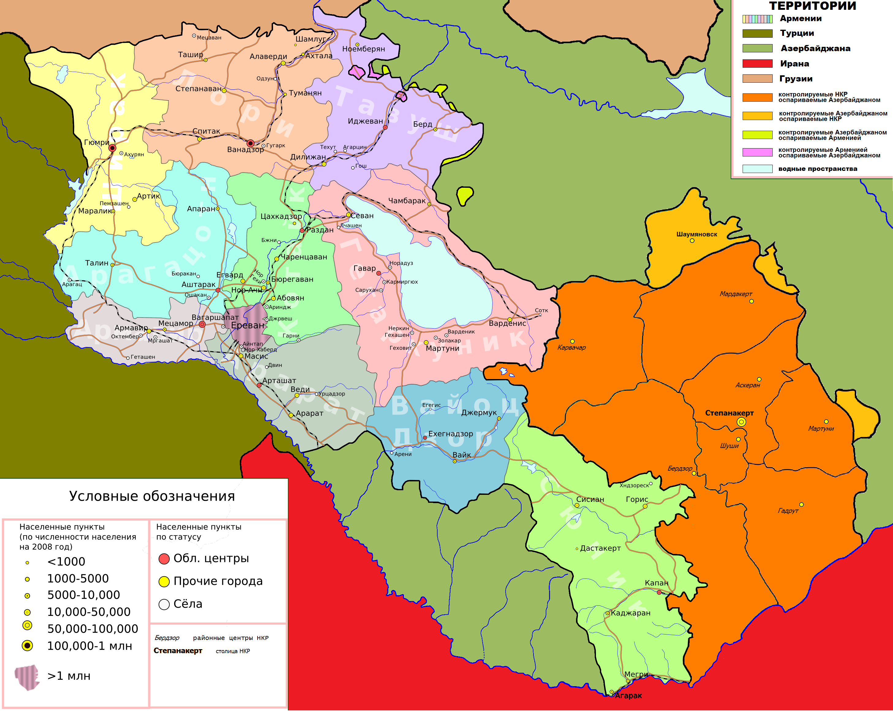 miatsum